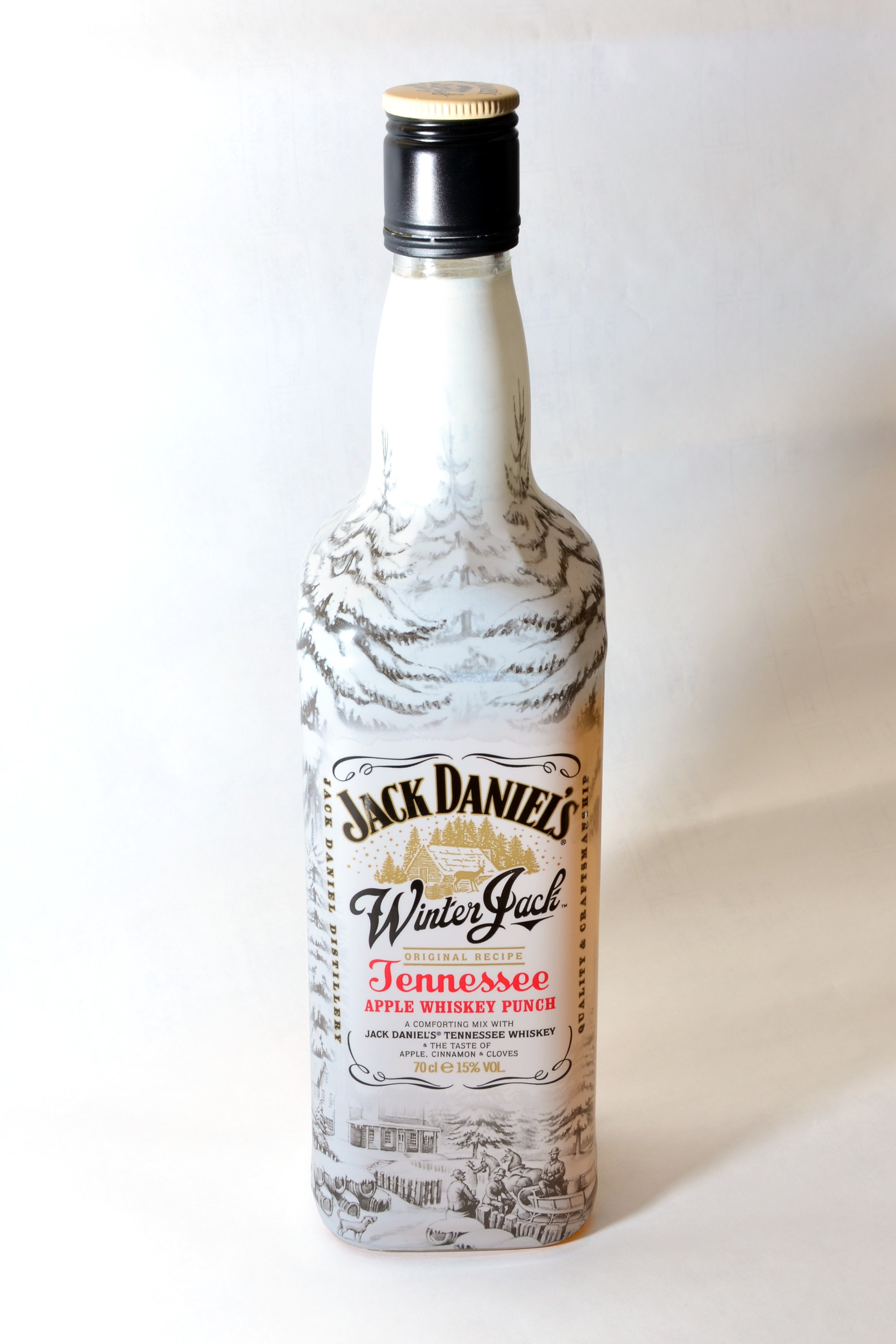 Jack Daniel's Applejack